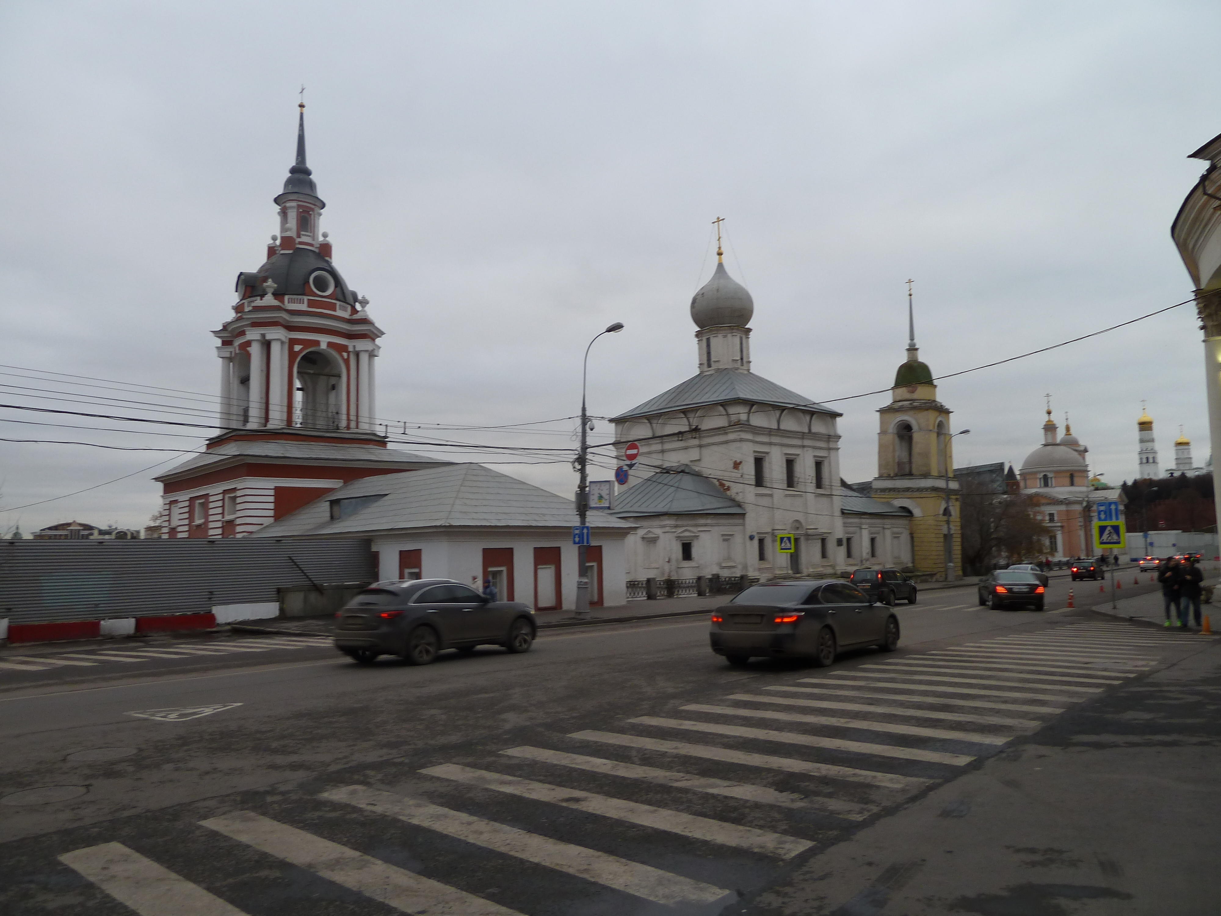 Churches in Moscow